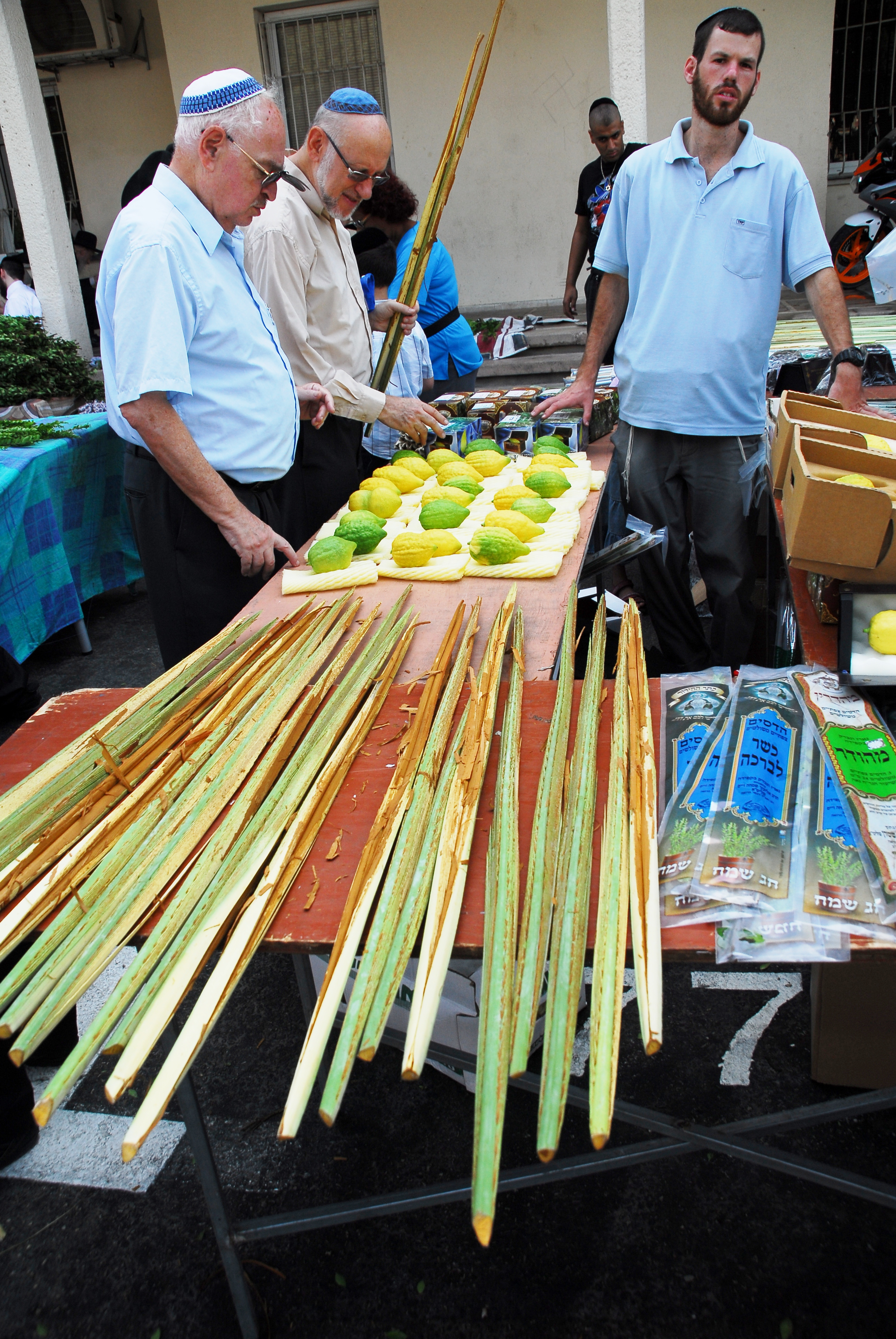 Religion in Israel